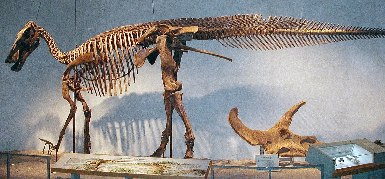 Photograph of skeletal mount of DMNS 1943, an Edmontosaurus annectens at the Denver Museum of Nature and Science. Specimen was attacked by a tyrannosaur in life as shown by damage to its tail per Carpenter 1998: Carpenter, Kenneth (1998). "Evidence of predatory behavior by theropod dinosaurs." Gaia 15: 135–144.